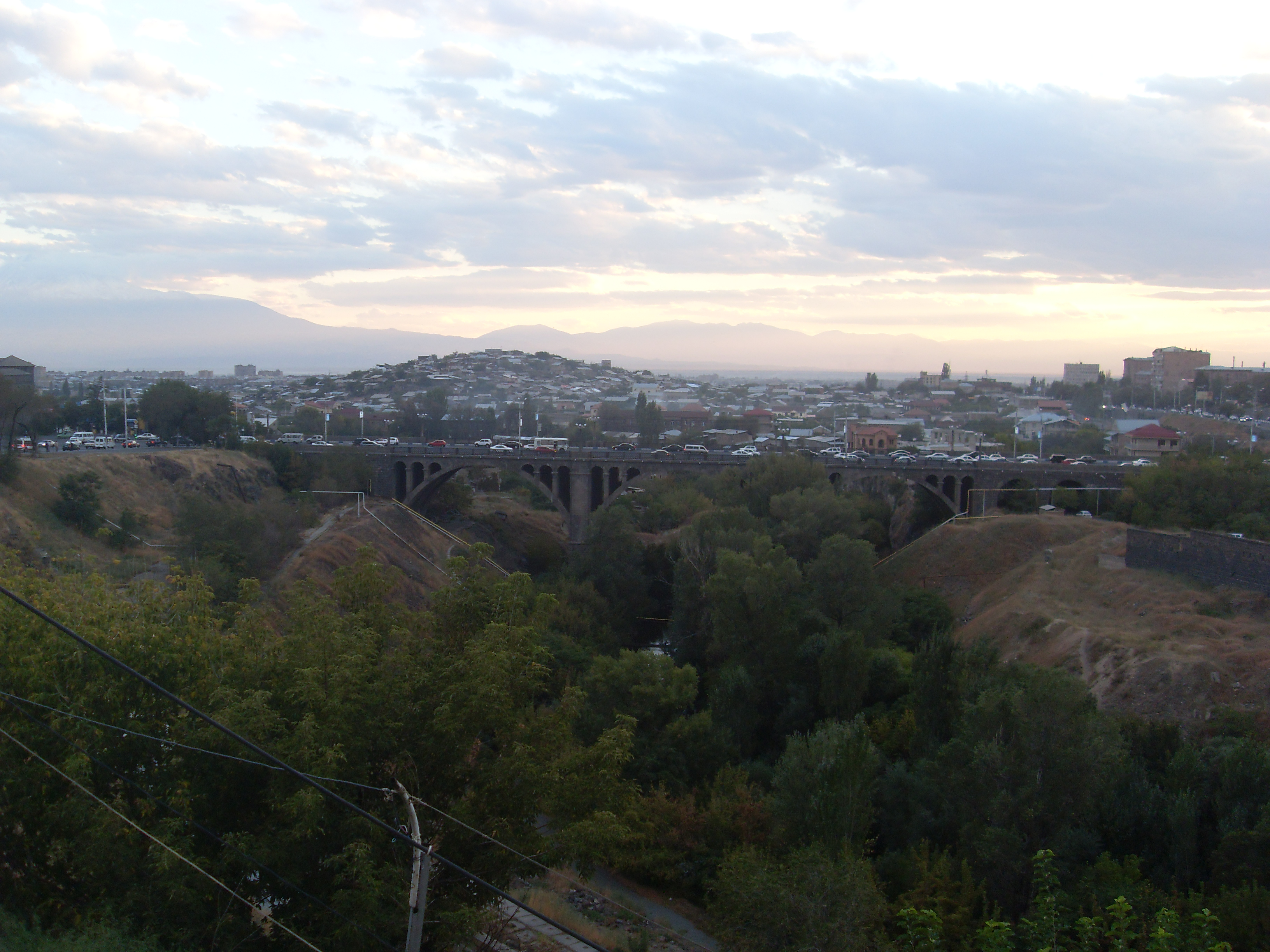 'Haghtanak' bridge, Yerevan, 1939-1964 6/85